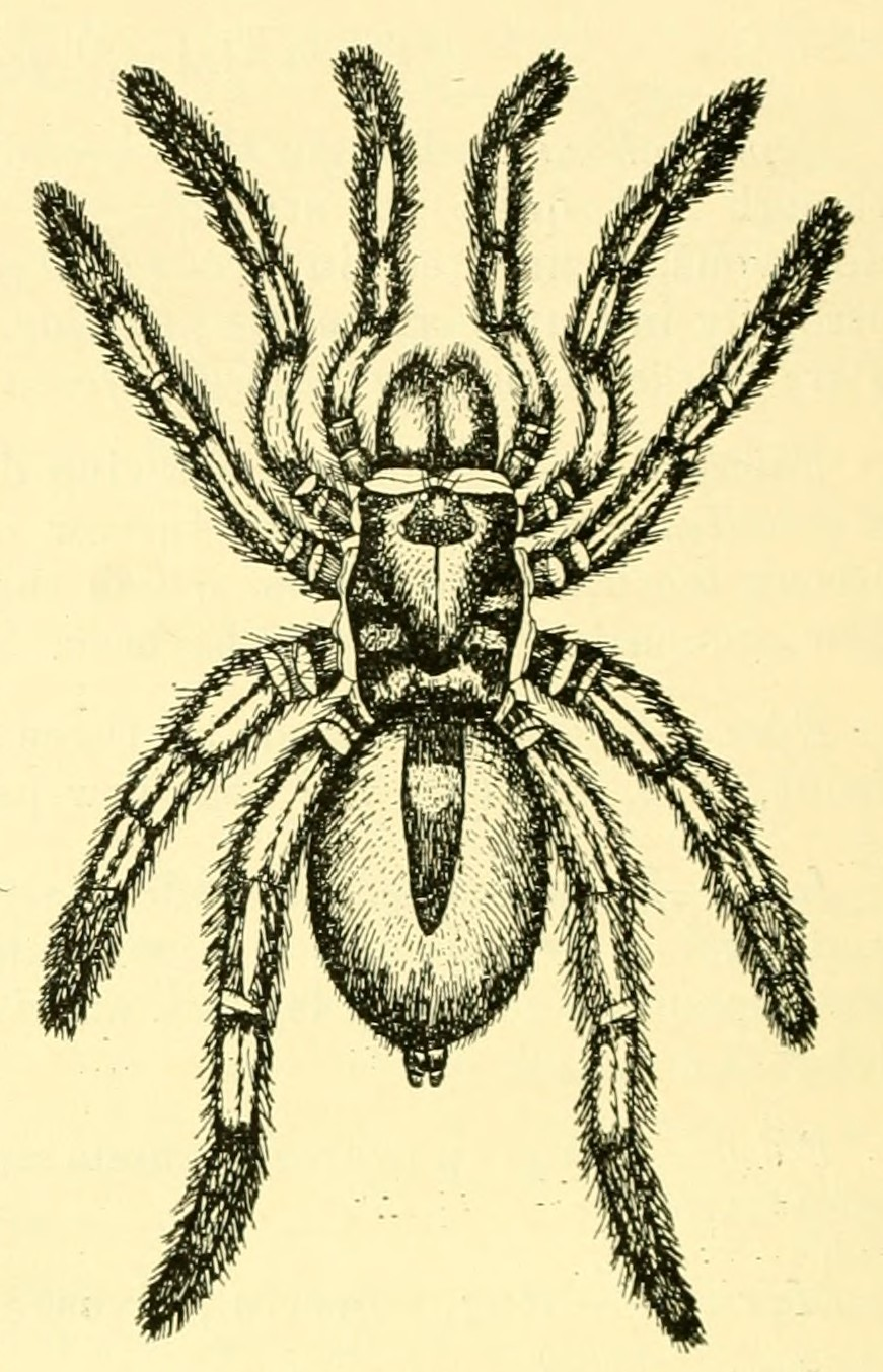 Gaius villosus, female adult, drawing from species description by William Joseph Rainbow, 1914